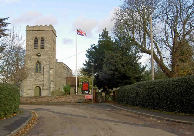 St. Peter's church Laneham Notice flood sign which was true.